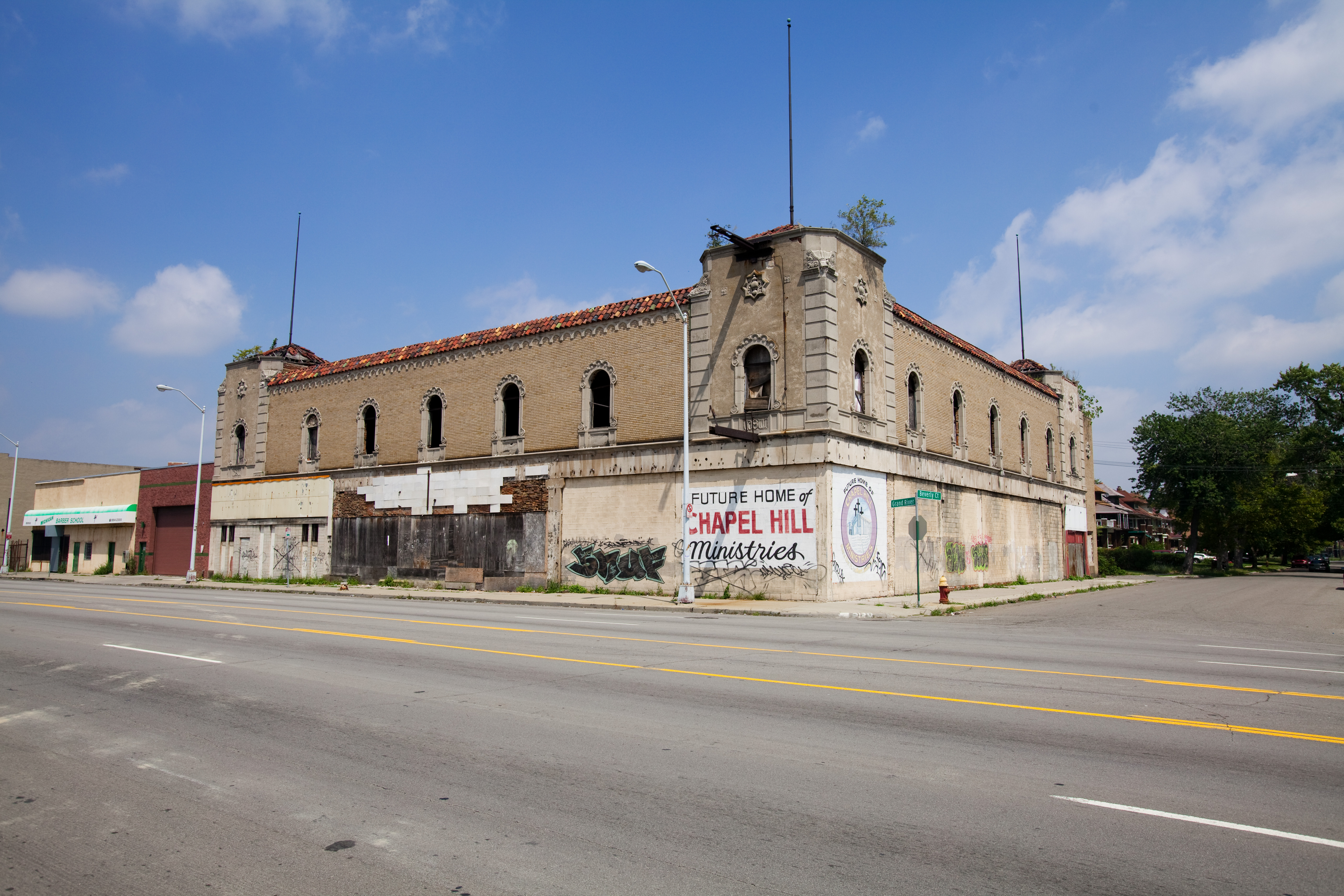 The Grande Ballroom, view from 8952 Grand River at Beverly Ct. Detroit in the fall of 2009.